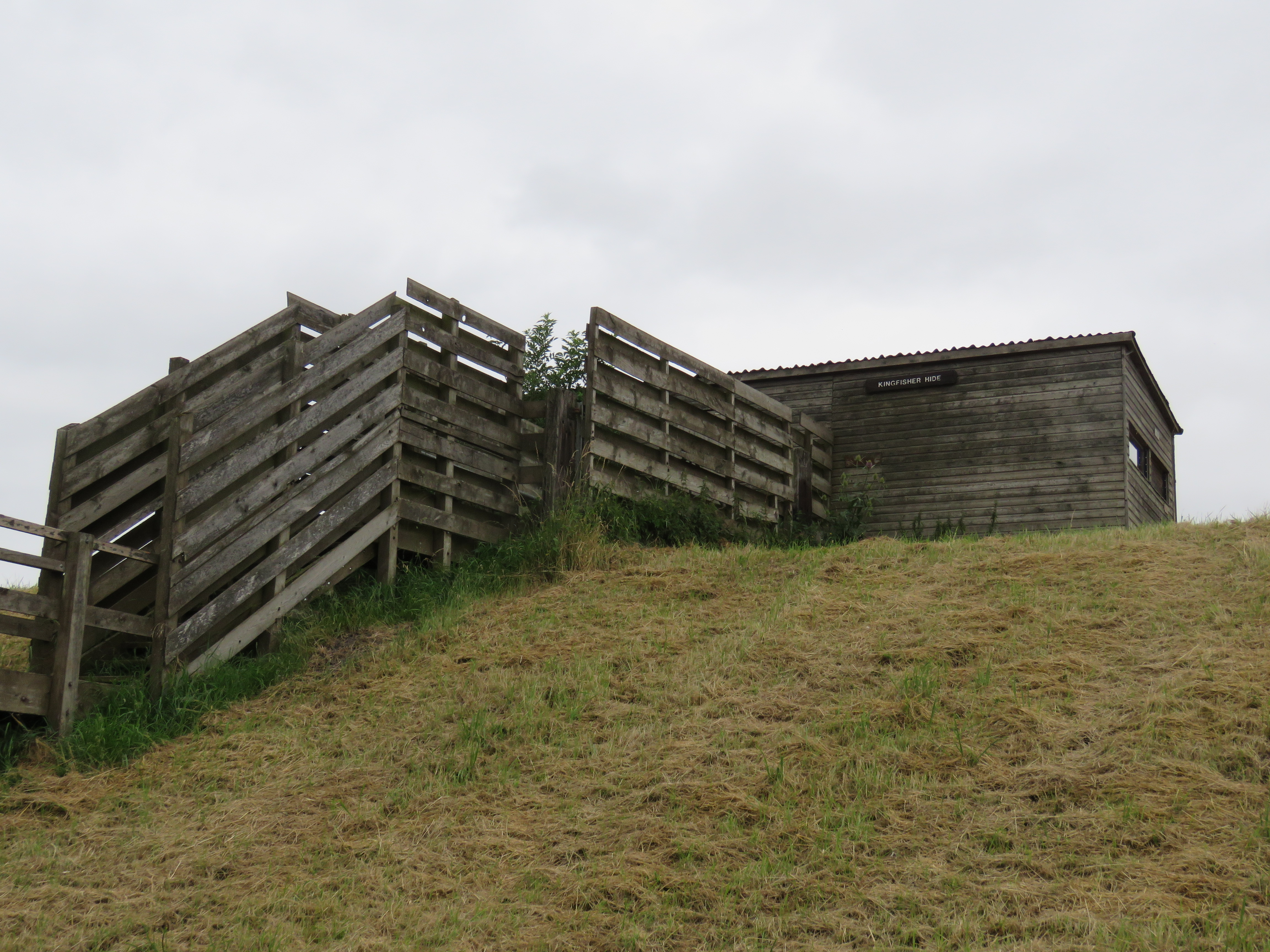 bird hide, RSPB Ouse Washes, Cambridgeshire